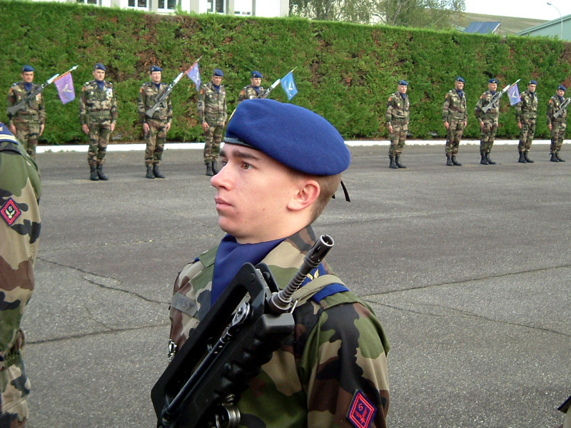 Presentation ceremony of the 5th RHC beret.